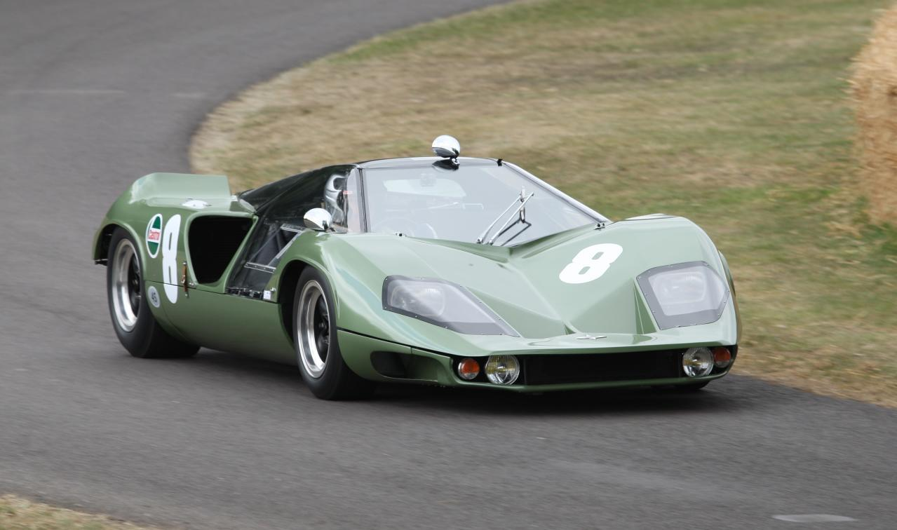 pictures from friday at fos